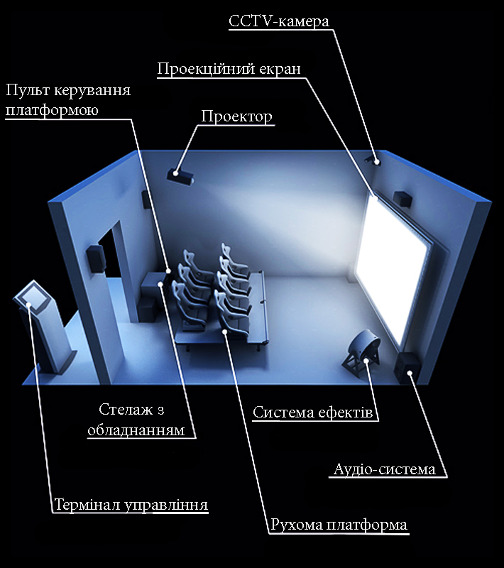 4D-theater-ukraine